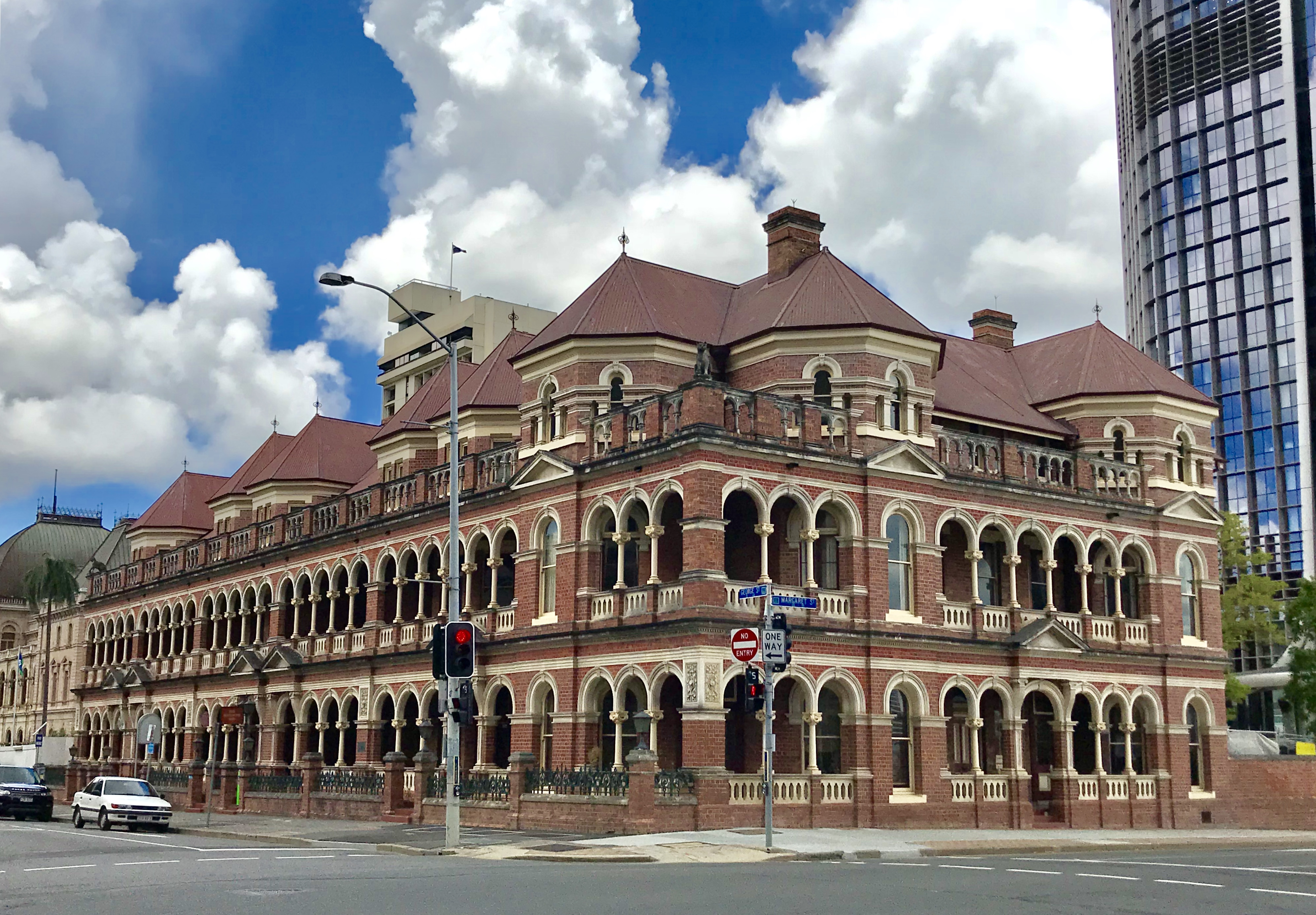 The Mansions, George Street, Brisbane